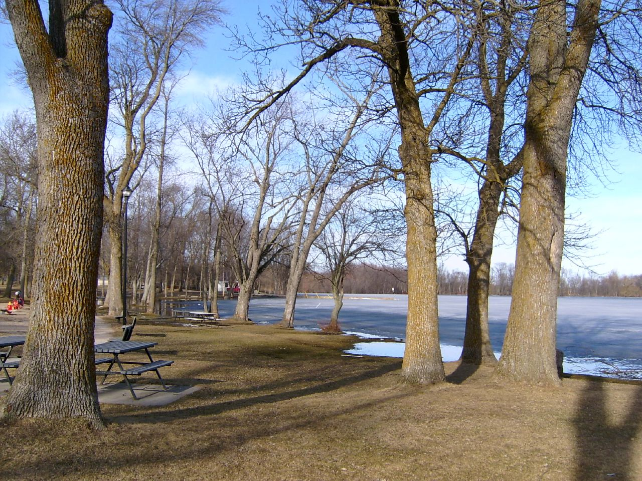 Stoco Lake near Tweed, Ontario